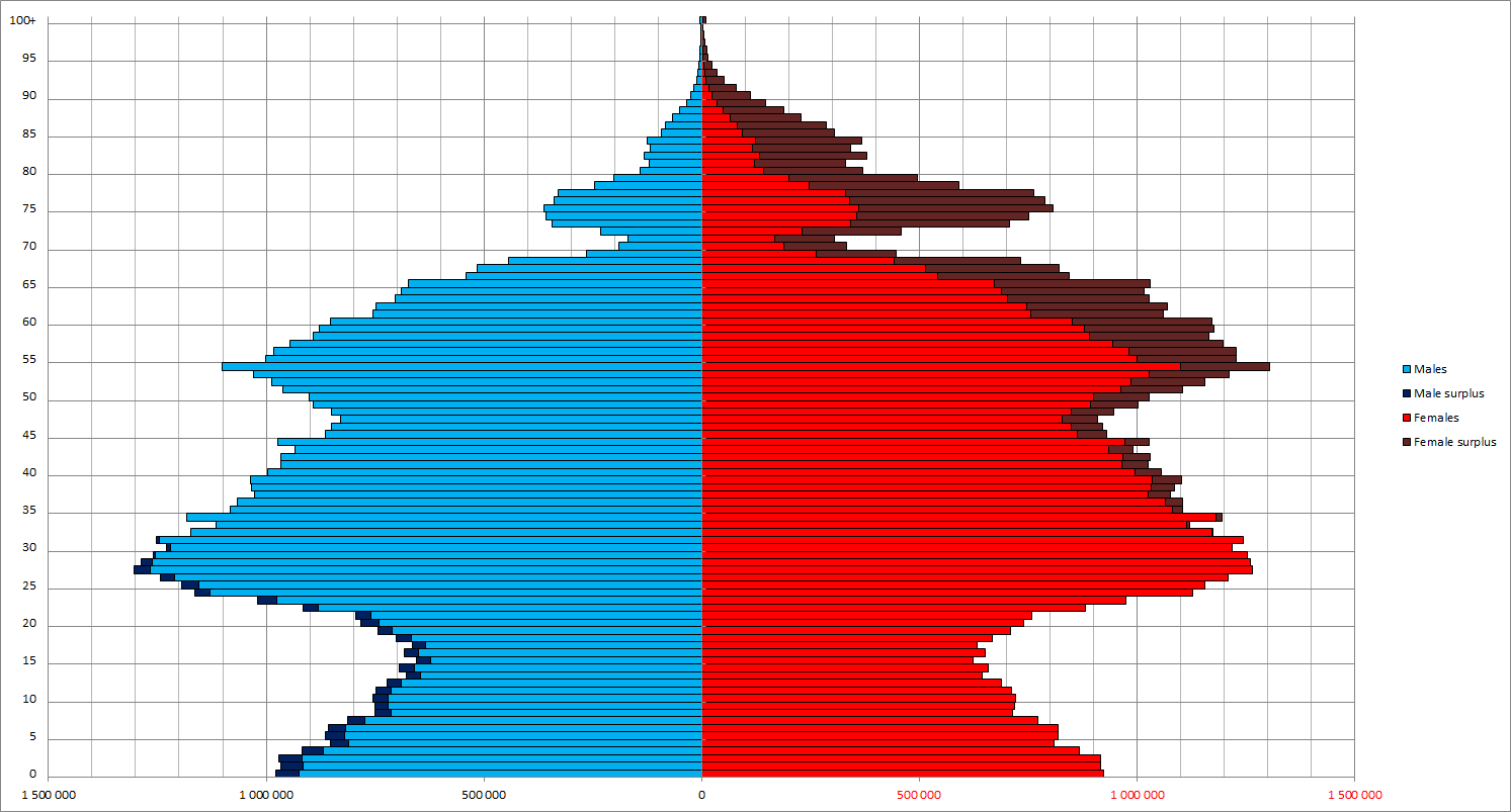 Population of Russia by age and sex (population pyramid) on January 1, 2015